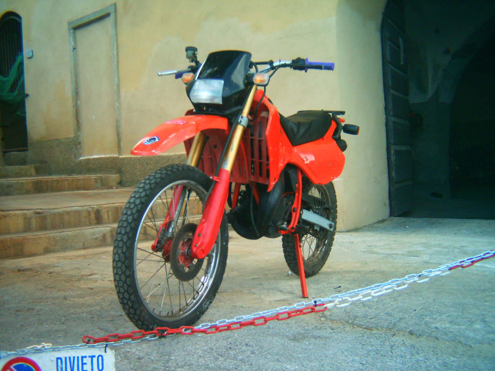 M.Y. 1990